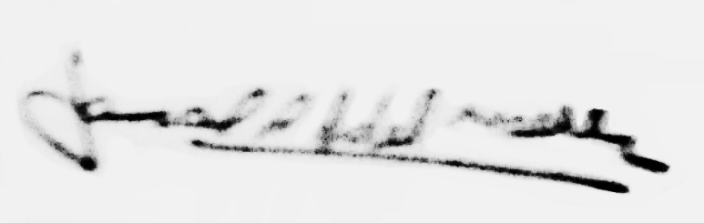 Autograph of Nasser, President of Egypt